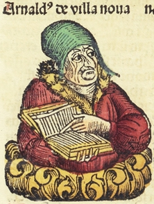 Woodcut from the Nuremberg Chronicle (Latin edition in Sao Paulo)